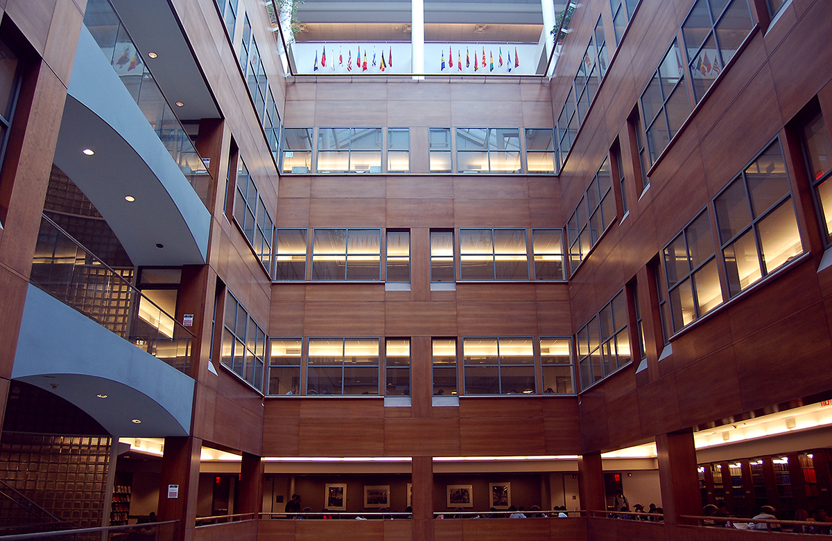 Taken at the William and Anita Newman Library at Baruch College. The watermark is my own; I have full rights to this image and am the original photographer for this image. Taken with a Nikon D40.